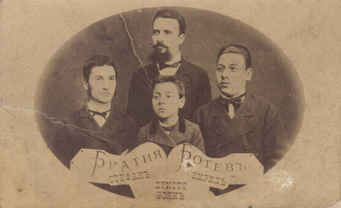 Photo of Hristo Botev (middle top) and his brothers Stefan, Boyan, Kiril (left to right) in the year of his death, 1876.